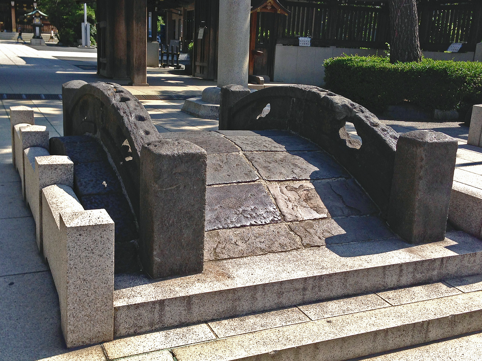 Shinkyo (sacred bridge) of Rokugo-Jinja, dedicated by Kagetoki Kajiwara approximately A.D.1191 (legend).